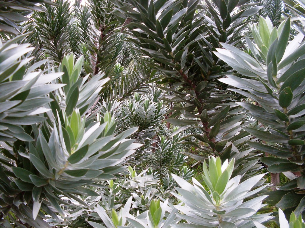 Dense foliage of Silvertree. Photo taken in Cecilia Park. Cape Town.